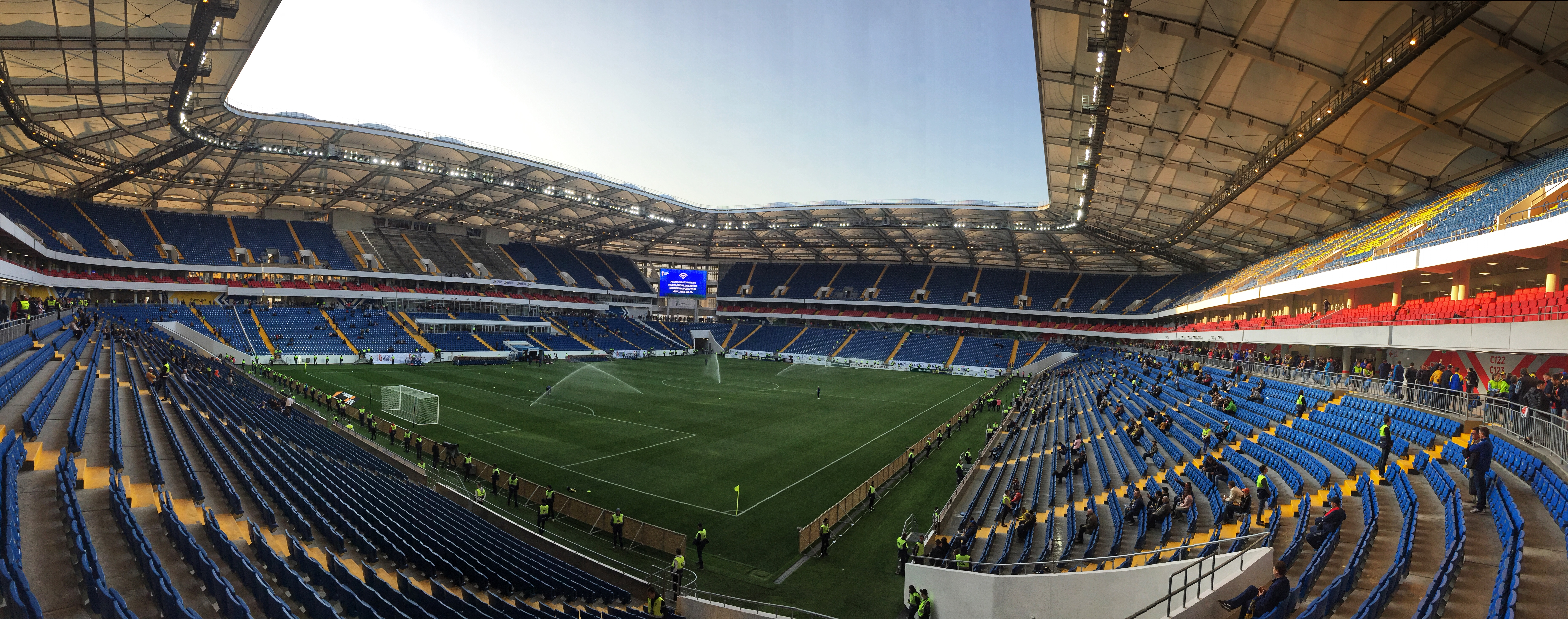 "Rostov-Arena" is a football stadium in Rostov-on-Don. April 2018, the day of the first official match.